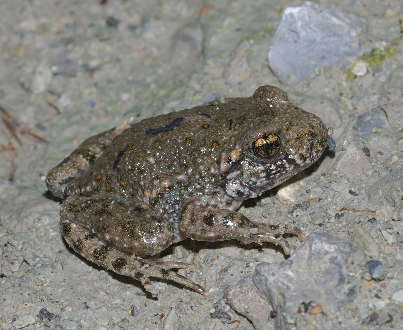 Juvenile specimen of the Common Midwife Toad, Alytes obstetricans, about 15 mm SVL.